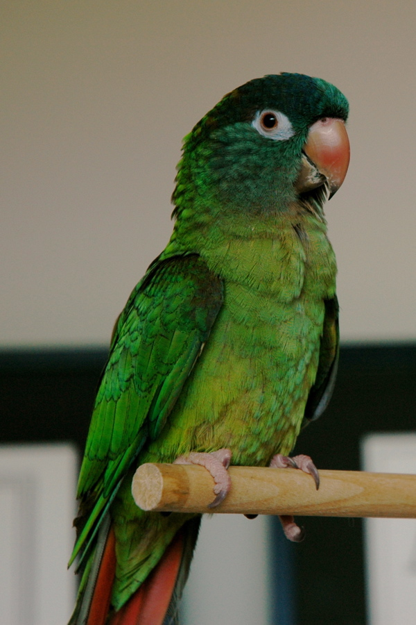 Blue-crowned Parakeet, Blue-crowned Conure, or sharp-tailed conure (Aratinga acuticaudata)